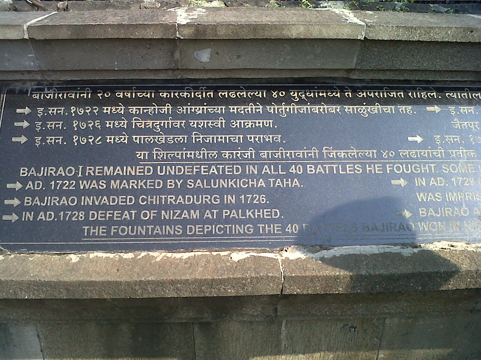 An information plaque (a part of the Shrimant Bajirao Peshwa memorial at Pune) describing the greatness of The Great Peshwa His Highness Bajirao I